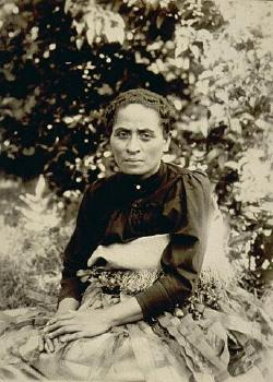 By the early 1900s, Josiah Martin was well known for the excellence of his Mäori and Pacific photographs. While basing his photography business in Auckland for over 30 years, he had travelled extensively throughout New Zealand and the Pacific, encouraged by the international response that Alfred Burton had gained for his photographs in the 1880s. He determined to improve on the work of his competitor from Dunedin by showing more attention to how Pacific people dressed, worked and took their leisure. Martin's Tongan portraits are among the finest Pacific portraits from the ninteenth century. Fusipala was of high Tongan rank, the daughter of Tävita'Unga, son of Tupou I (also known as Täufa'ähau). She had married her cousin, Tui'ipelehake Fatafehi, in 1870, and their son Tui'ipelehake Taufa'ähau became Tupou II in 1893. Up until her death in September 1889, Fusipala was the senior matrilineal embodiment of the Tongan royal lineage of Tui'ipelehake. Although this was the first time that she had met a photographer, Fusipala is at ease being photographed sitting outside in her garden at Nukunuku on the island of Tongatapu. As a Christian convert to the Wesleyan Mission, she wears the already standard blouse of her status. Her crimped black tapa and fine woven pandanus skirt further affirm her rank. By allowing his sitters to pose naturally, Martin was able to represent Mäori and Pacific people with respect and distinction. (from The Guide, 2001).